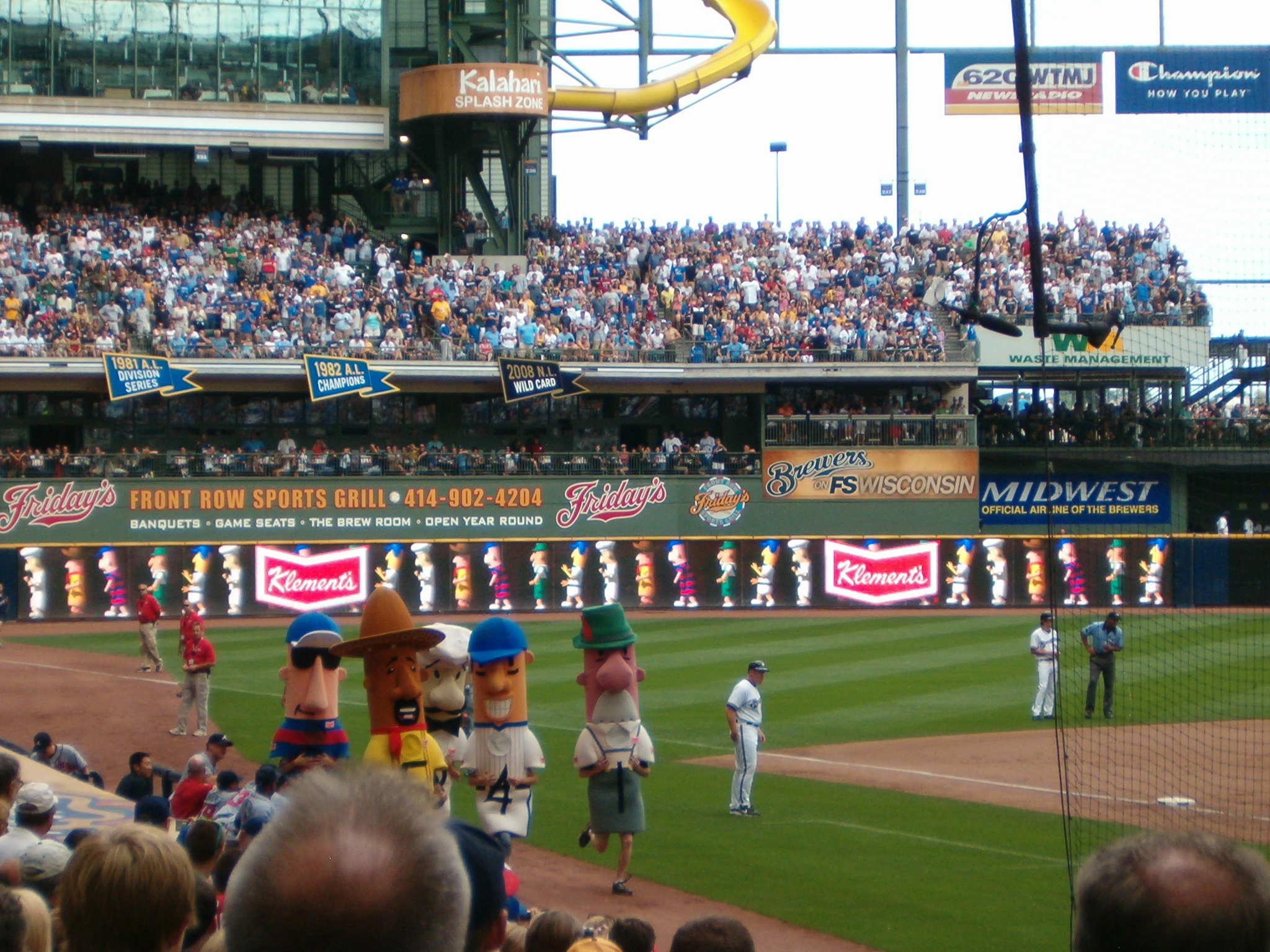 The sausage race at Miller Park